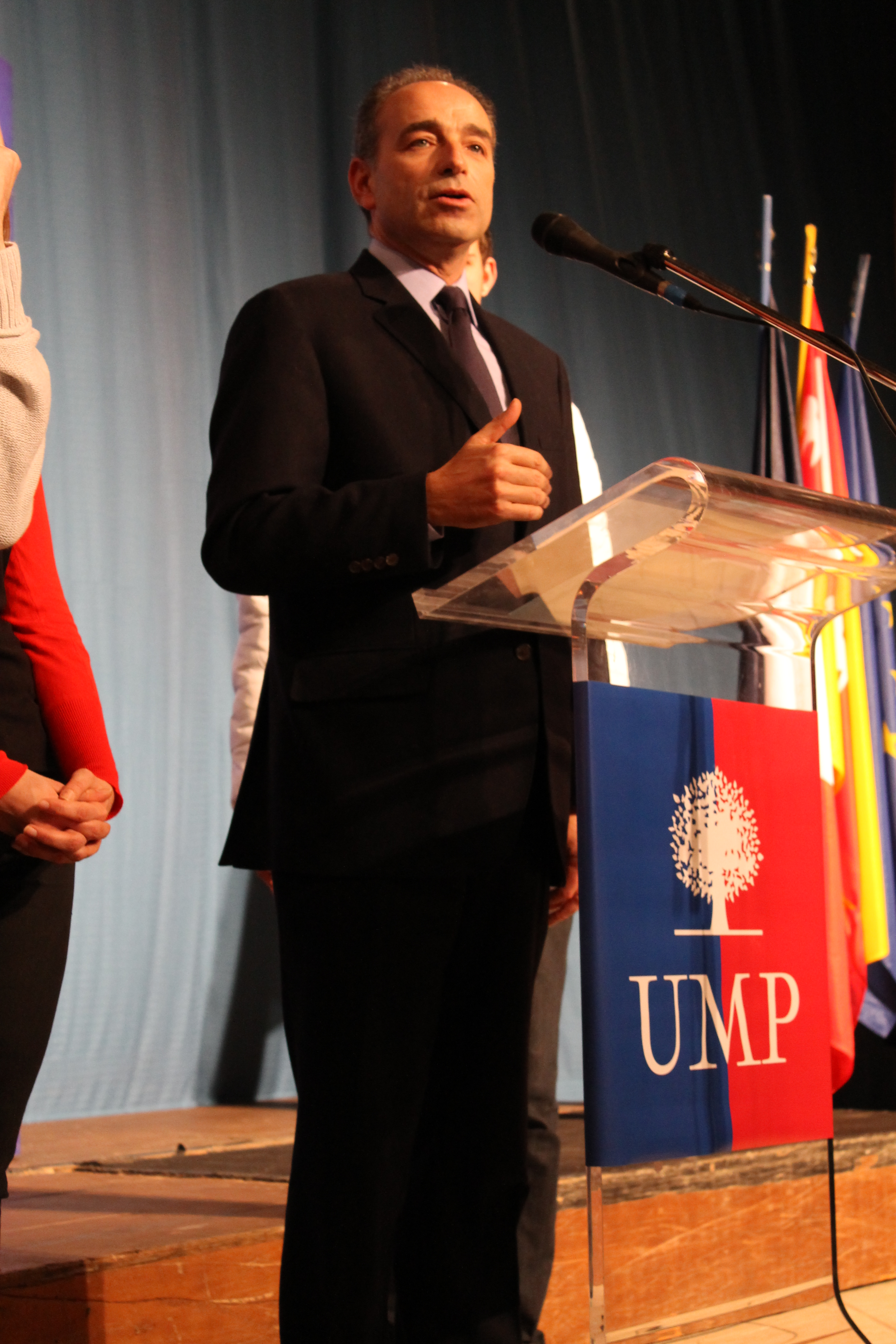 Jean-François Copé à une réunion publique, à Nancy, le 2 décembre 2012.